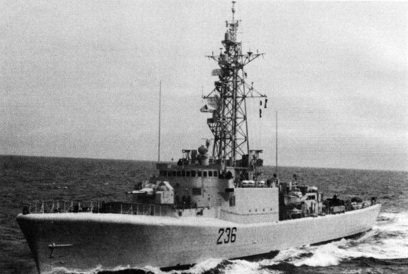 The Royal Canadian Navy Restigouche-class destroyer HMCS Gatineau (DDE 236) underway in 1983.